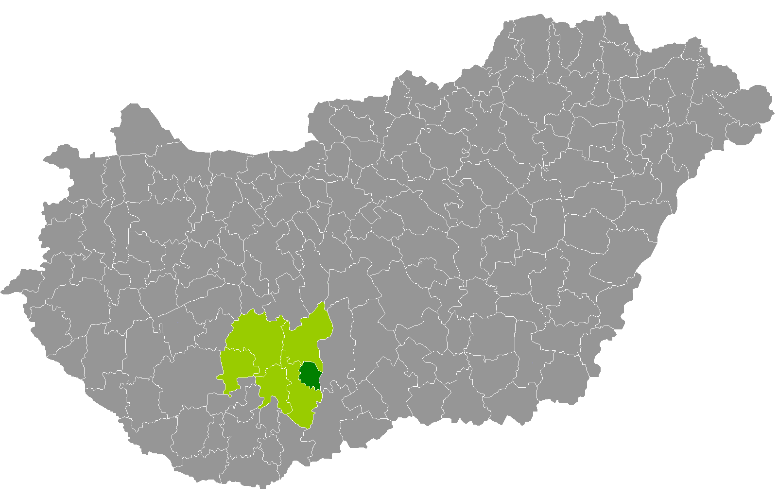 Location of Tolna District, Tolna, Hungary